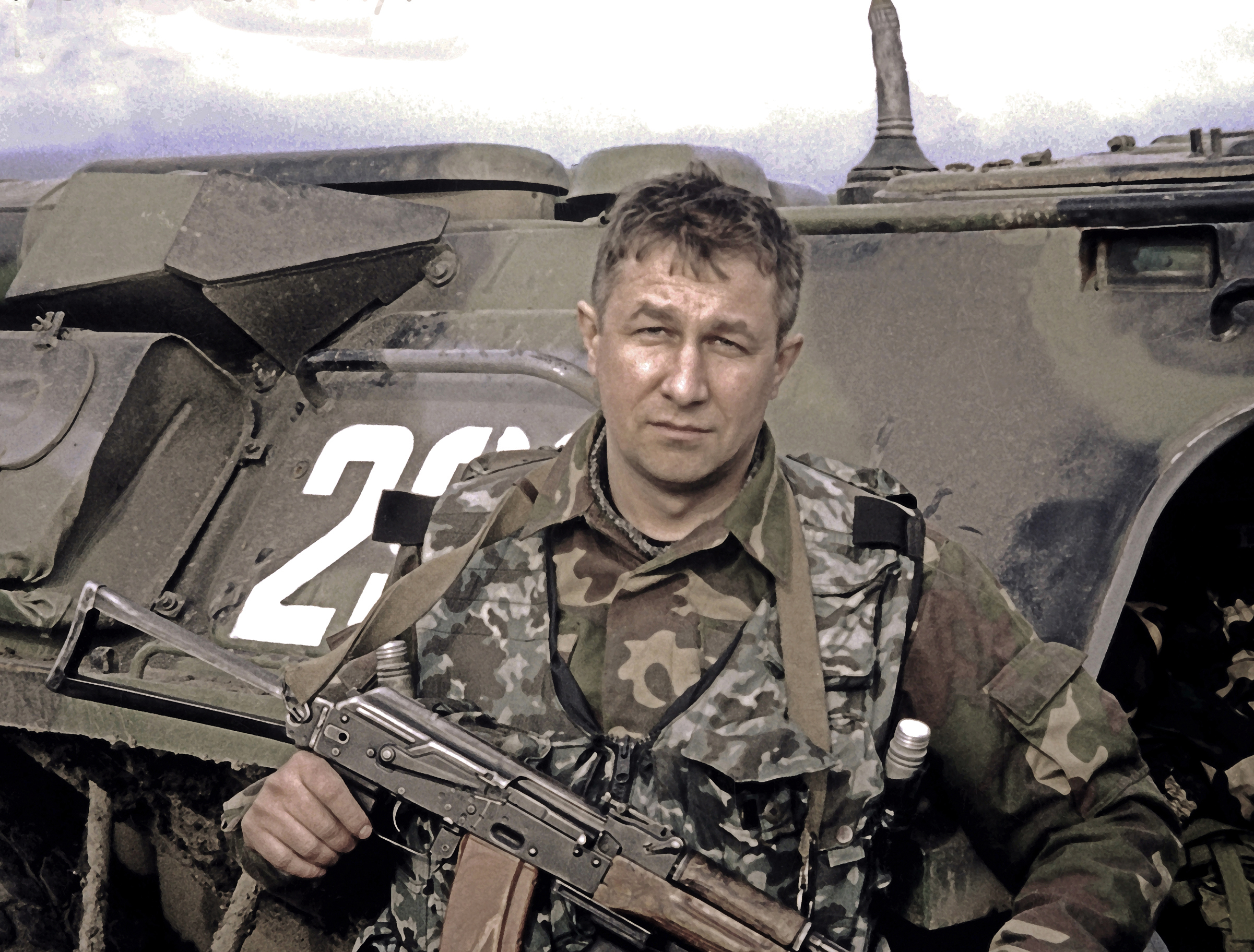 Photo of Vasilyev Sergei